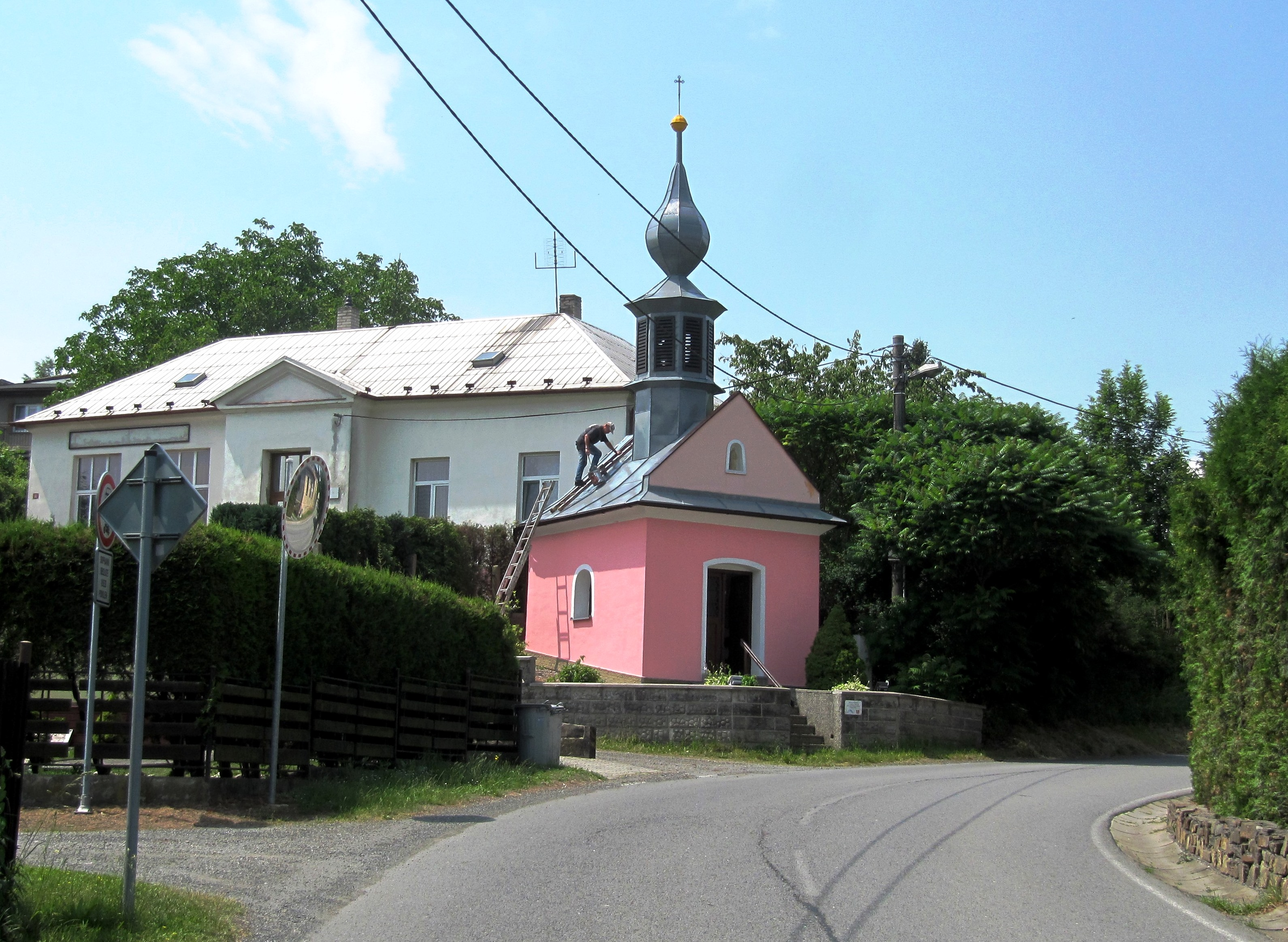 Bílovec, Nový Jičín District, Czech Republic, part Lhotka.